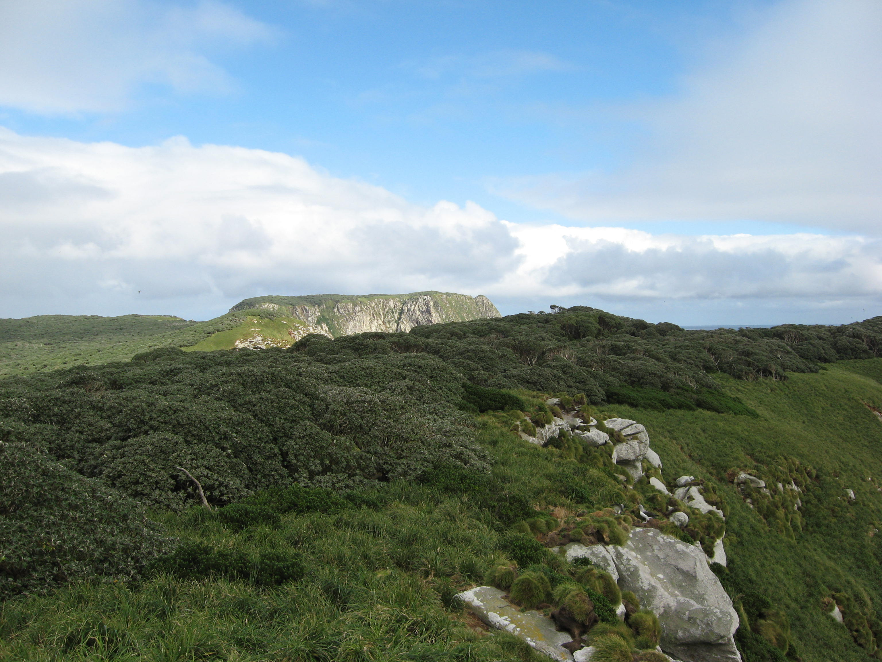 North East Island in the Snares Island Group - on the Eastern side looking to the West.